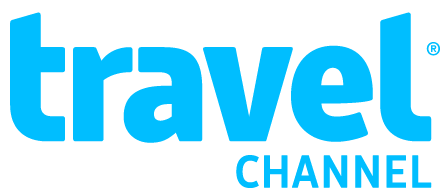 Logo for the Travel Channel